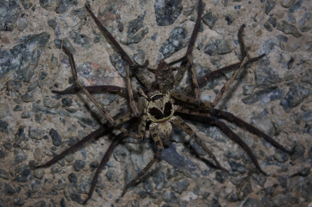 The smaller one (male?) on top was sinking its fangs into the larger one underneath. Found inside a water catchment on Lantau.